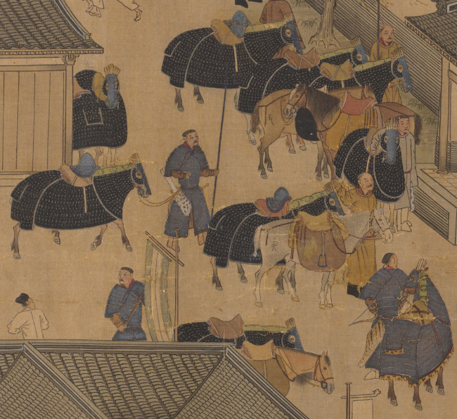 Kitten cav 2 - Copy